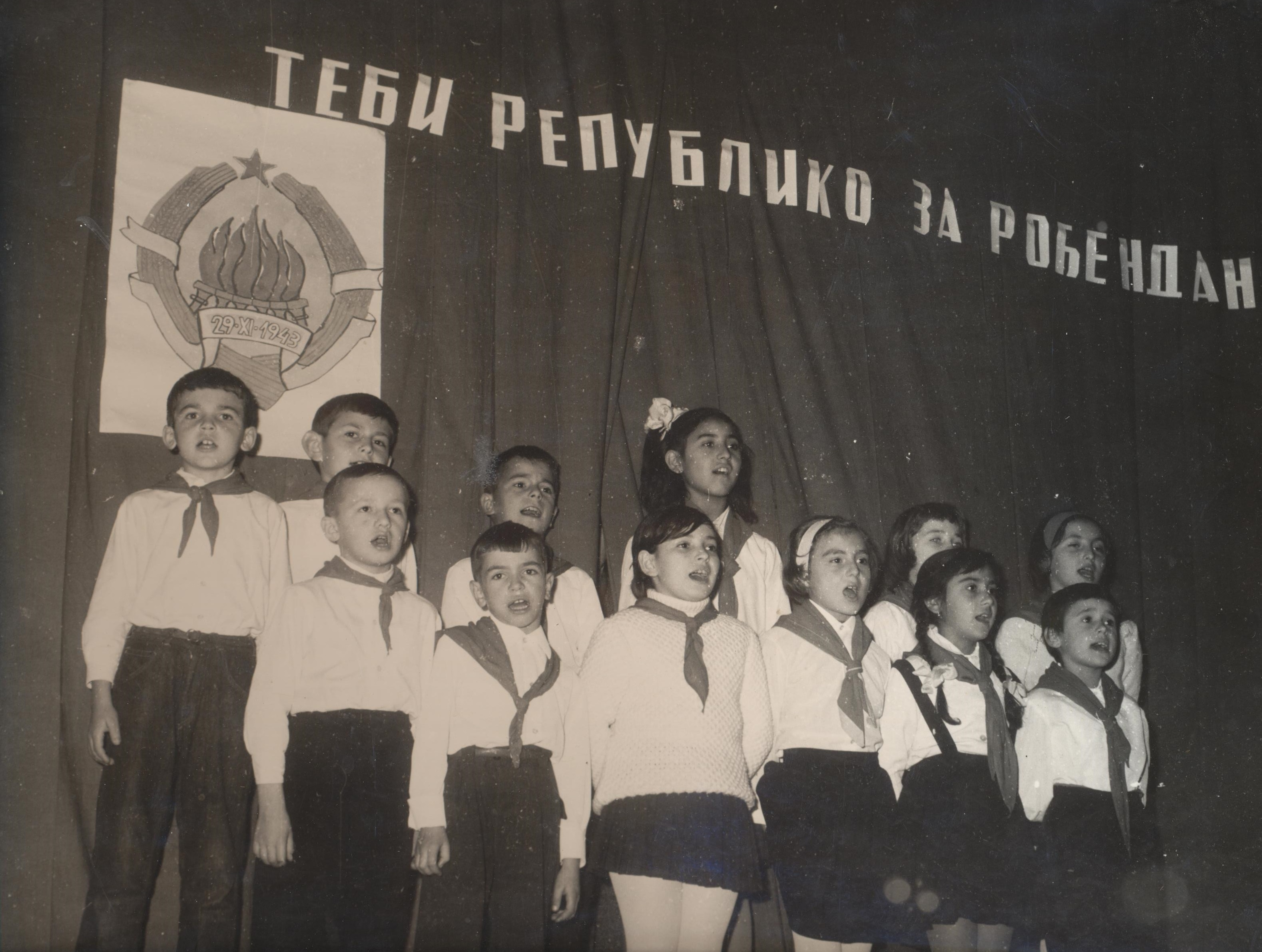 Republic Day in 1963. in Pirot